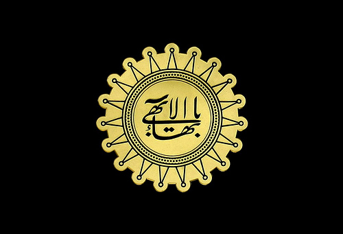 The greatest name which adorns the entryway of the Shrine of Bahá'u'lláh in Bahji.